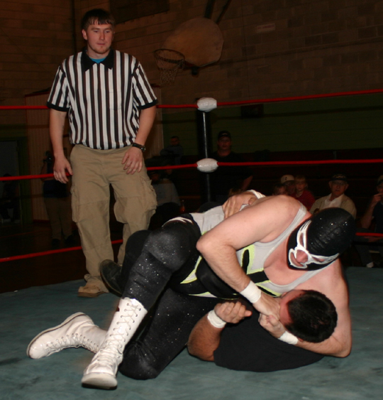 The Nighthawk wears down Steve Dalton in an AWA Coastal heavyweight title bout.